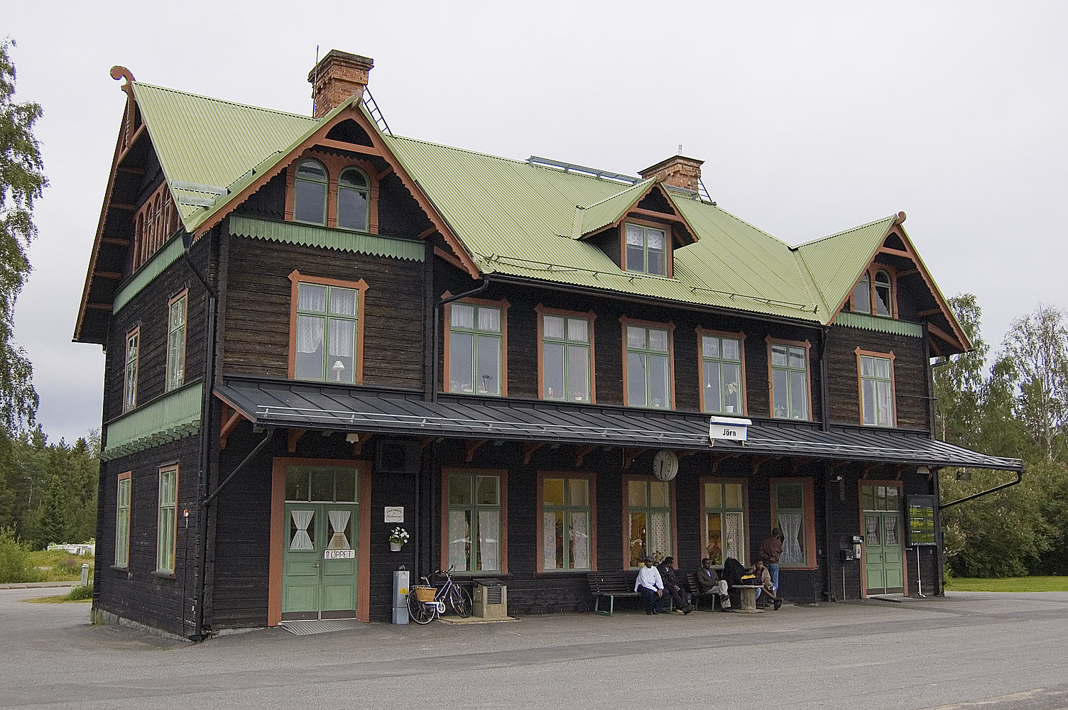 Jörn railway station, Skellefteå municipality, Sweden.